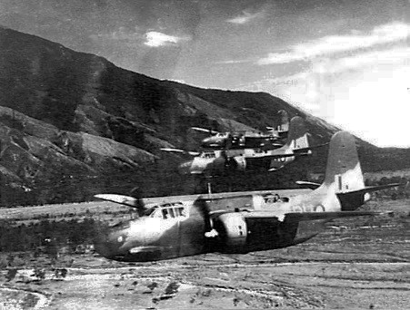 Douglas Boston (A-20) aircraft of No. 22 Squadron RAAF in South West Pacific Area. No. 22 was the only Australian squadron which was equipped with this type. It was later reequipped with Beaufighters after most of its Bostons were caught on ground, at night, by Japanese bombing at Morotai.